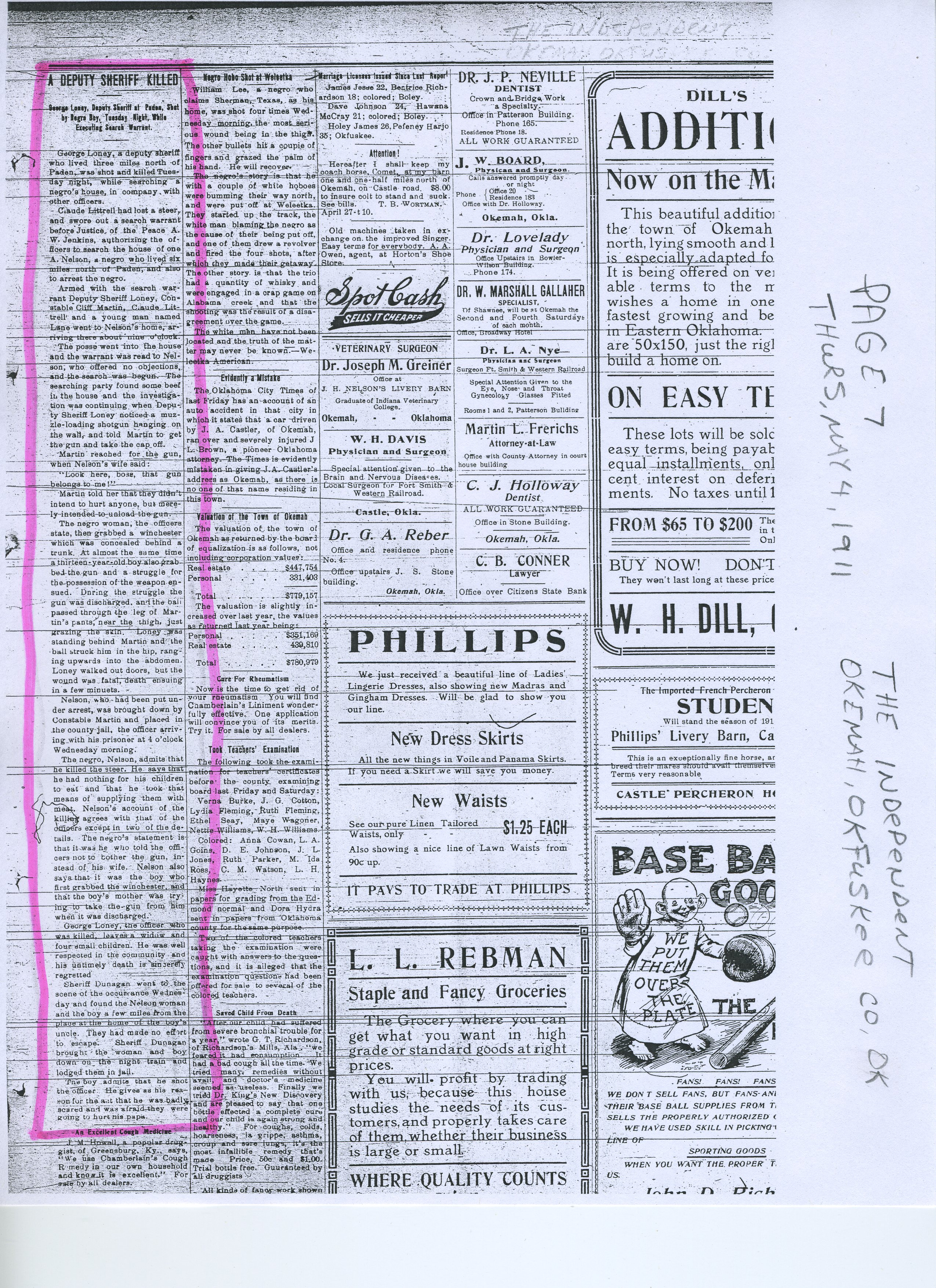 The Independent, Okemah, Oklahoma, May 4, 1911, p. 7, reporting the shooting on May 2 of Deputy Sheriff George Loney. His death led to the lynching of Laura and L.D. Nelson.